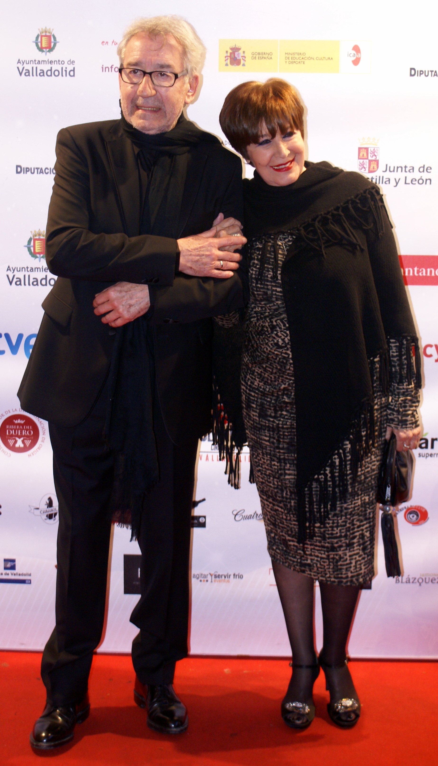 Concha Velasco and José Sacristán, Spanish actors, before the Espigas de Oro ceremony of the 2013 Seminci.